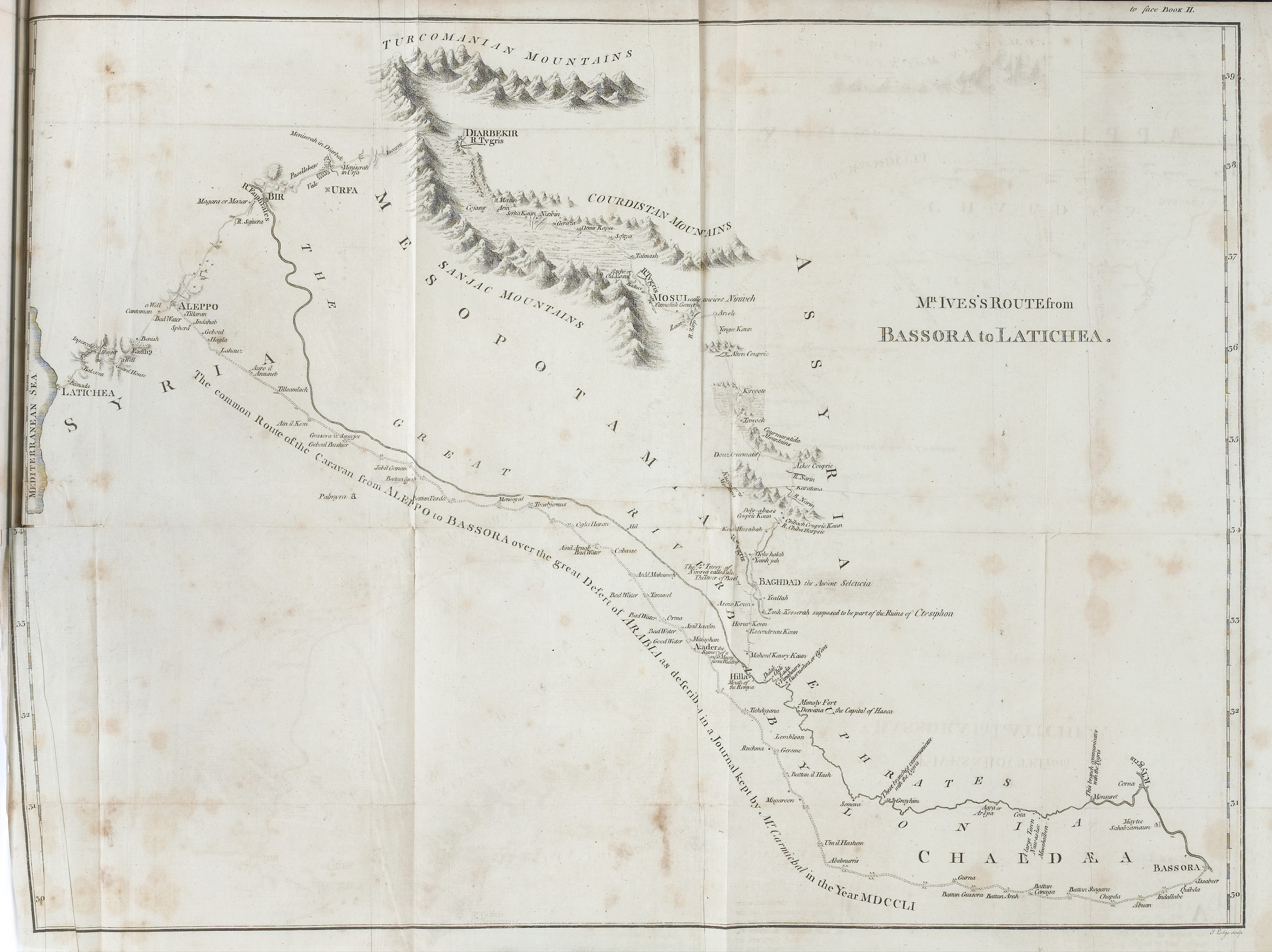 A map of Mr Ives's journey from Bassora to Latichea. Rare Books Keywords: Botany; Plants, Medicinal